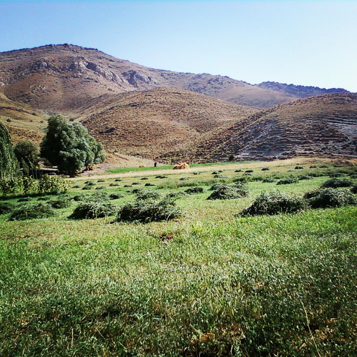 دامنه کوه عبدالرزاق